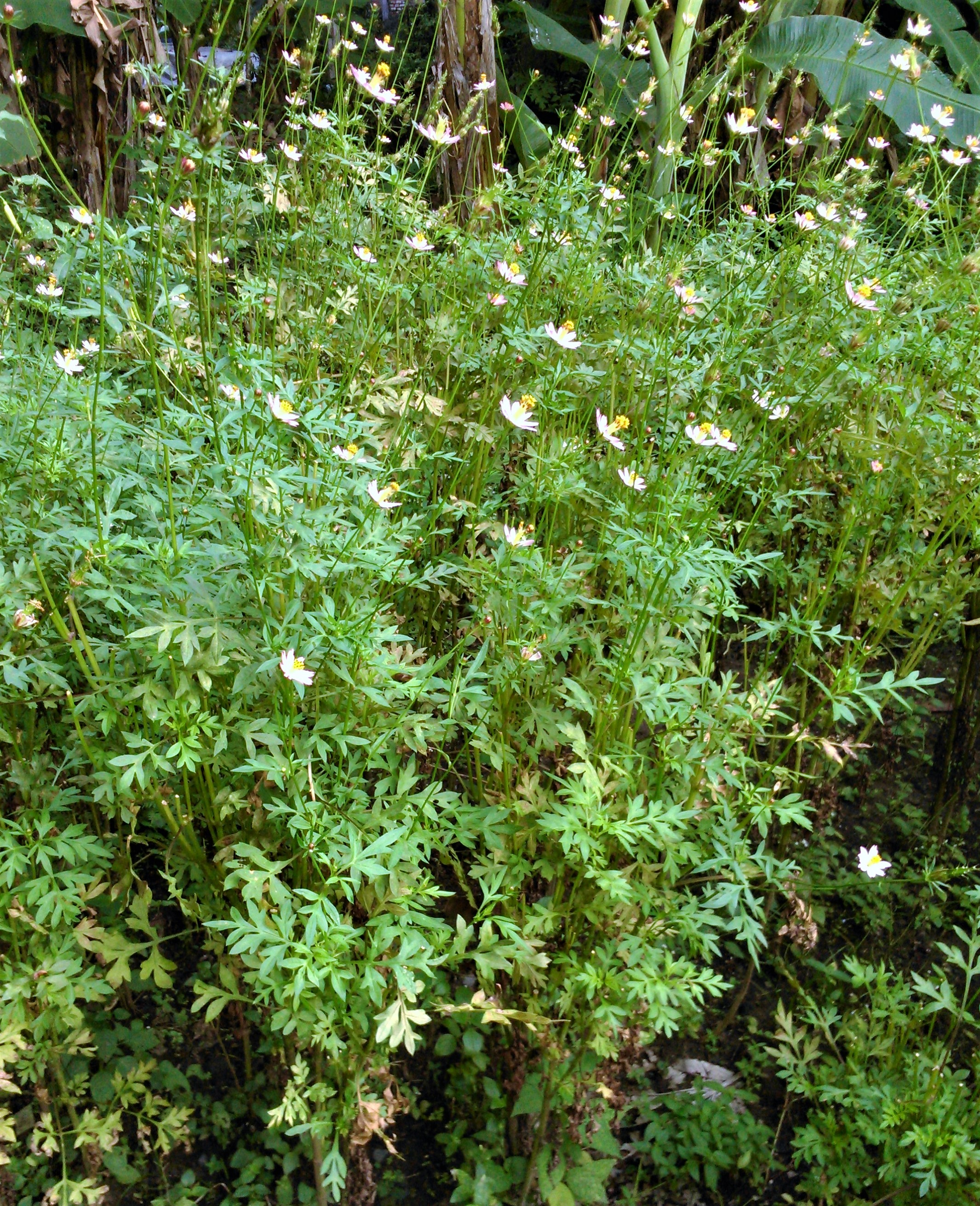 Habit of Cosmos caudatus. Yogyakarta, Indonesia.